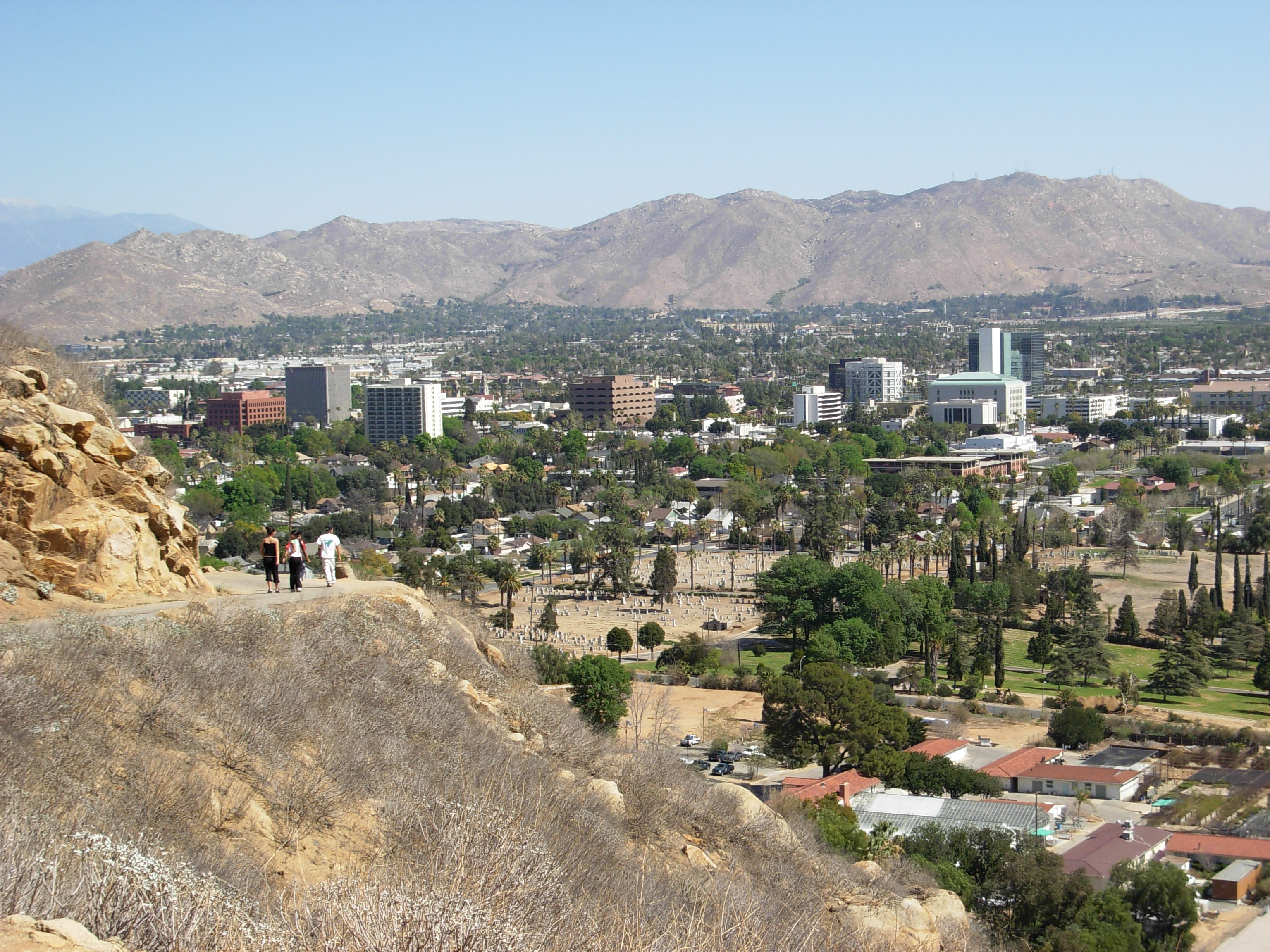 Descending Mt. Rubidoux — with view of Riverside, California.